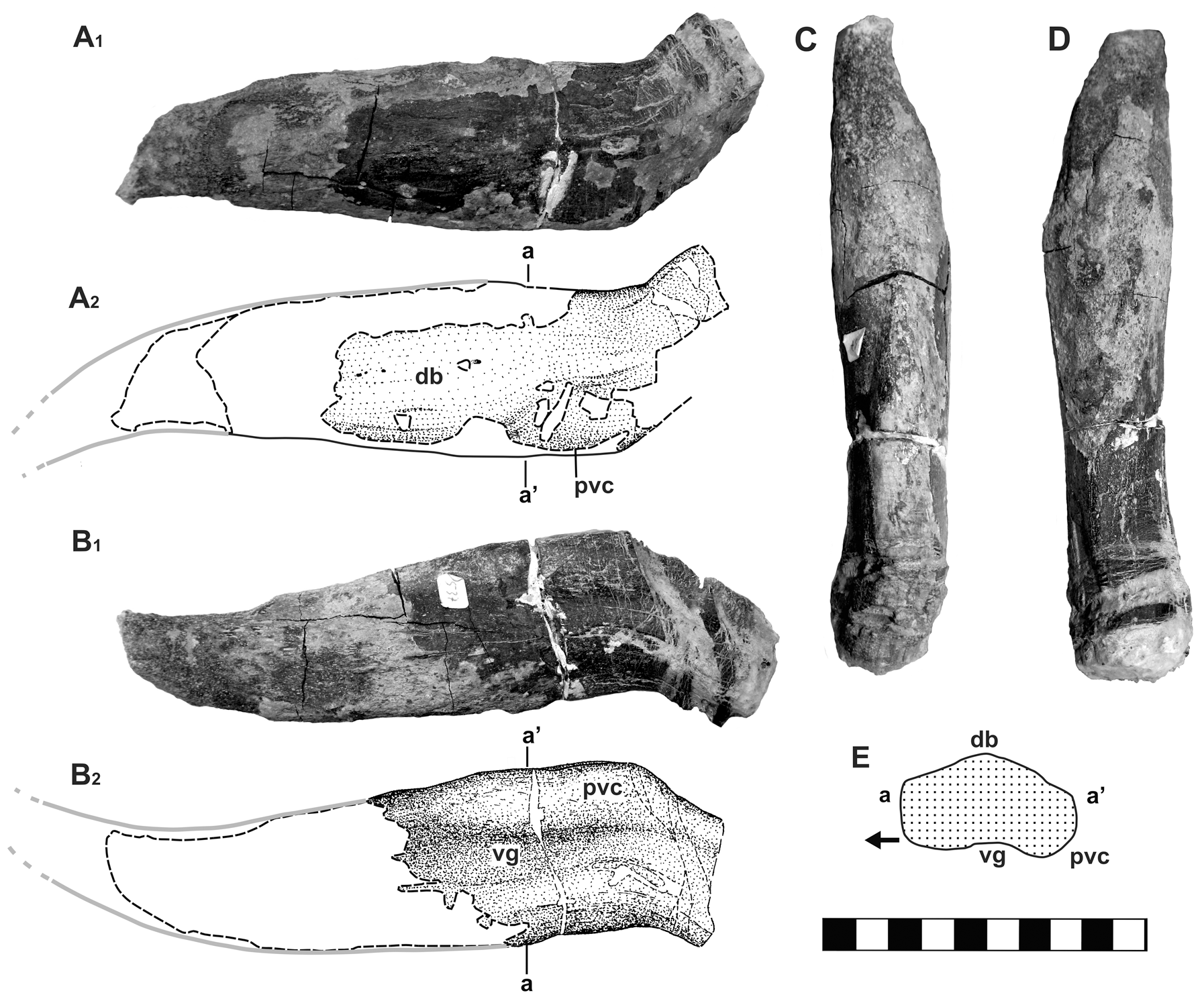 Cervico-pectoral lateral spine of ?Hylaeosaurus sp. (DLM 537) from the Bückeberg Formation (early Valanginian) of Gronau in Westfalen, northwestern Germany. A, dorsal view; B, ventral view; C, posterior view; D, anterior view. E, cross-section at a–a′; arrow points anteriorly. White areas in dashed lines: areas with missing substantia compacta; gray line: reconstructed outline. Note that the drawings have been slightly reconstructed to compensate for distortion of the basal part. Abbreviations: db, dorsal bulge; pvc, posteroventral crest; vg, ventral groove. Scale-bar units equal 1 cm.